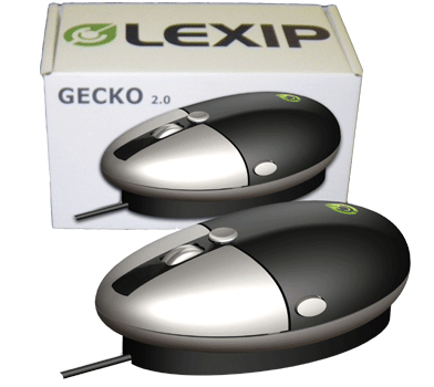 This is the first 3D mouse ever, designed by Lexip. It's called the Gecko